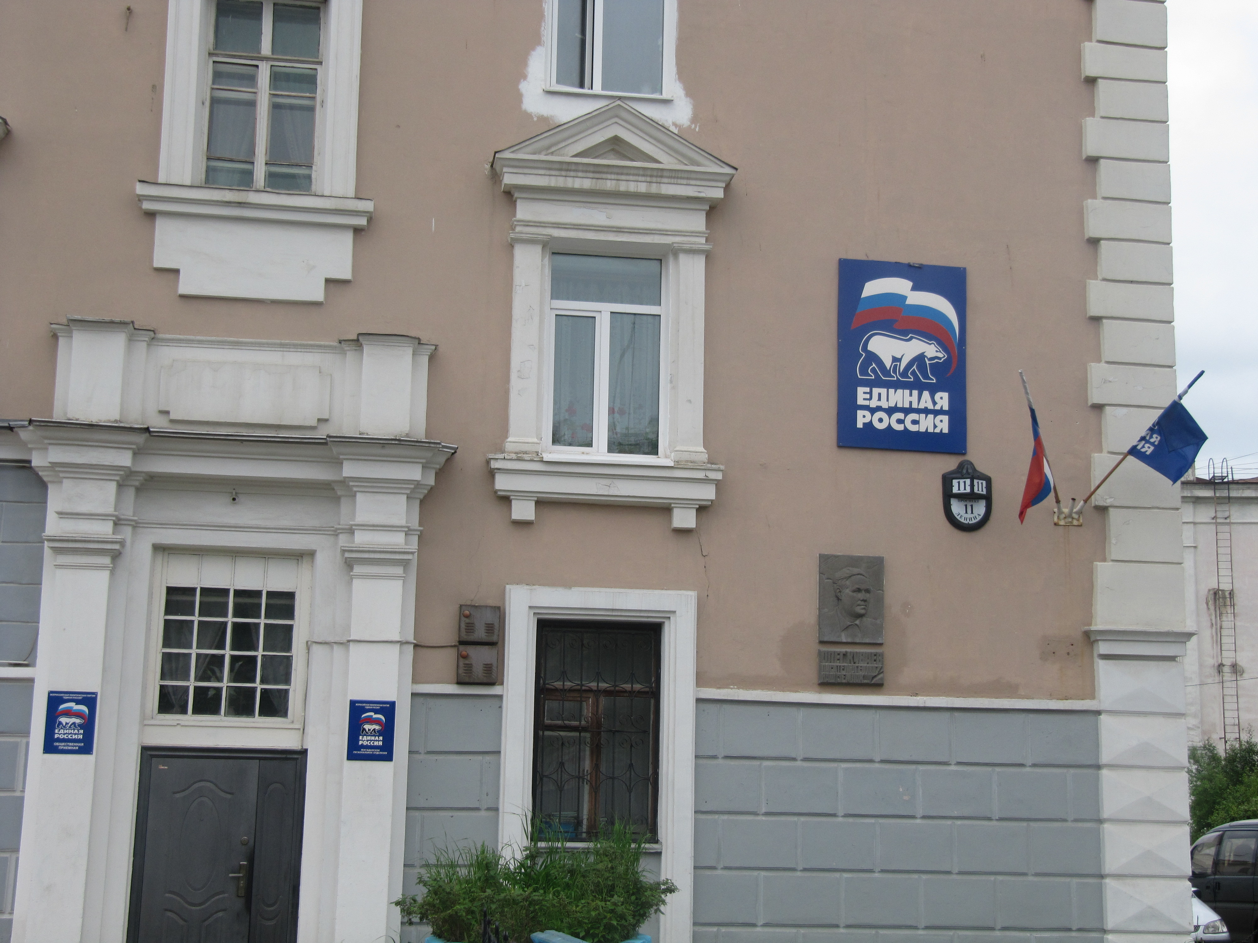 United Russia Office